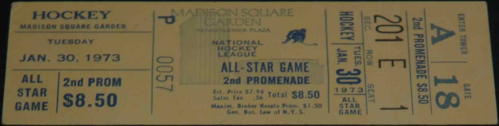 Ticket for the NHL All-Star Game 1973, shown in the Hall of Fame in Toronto